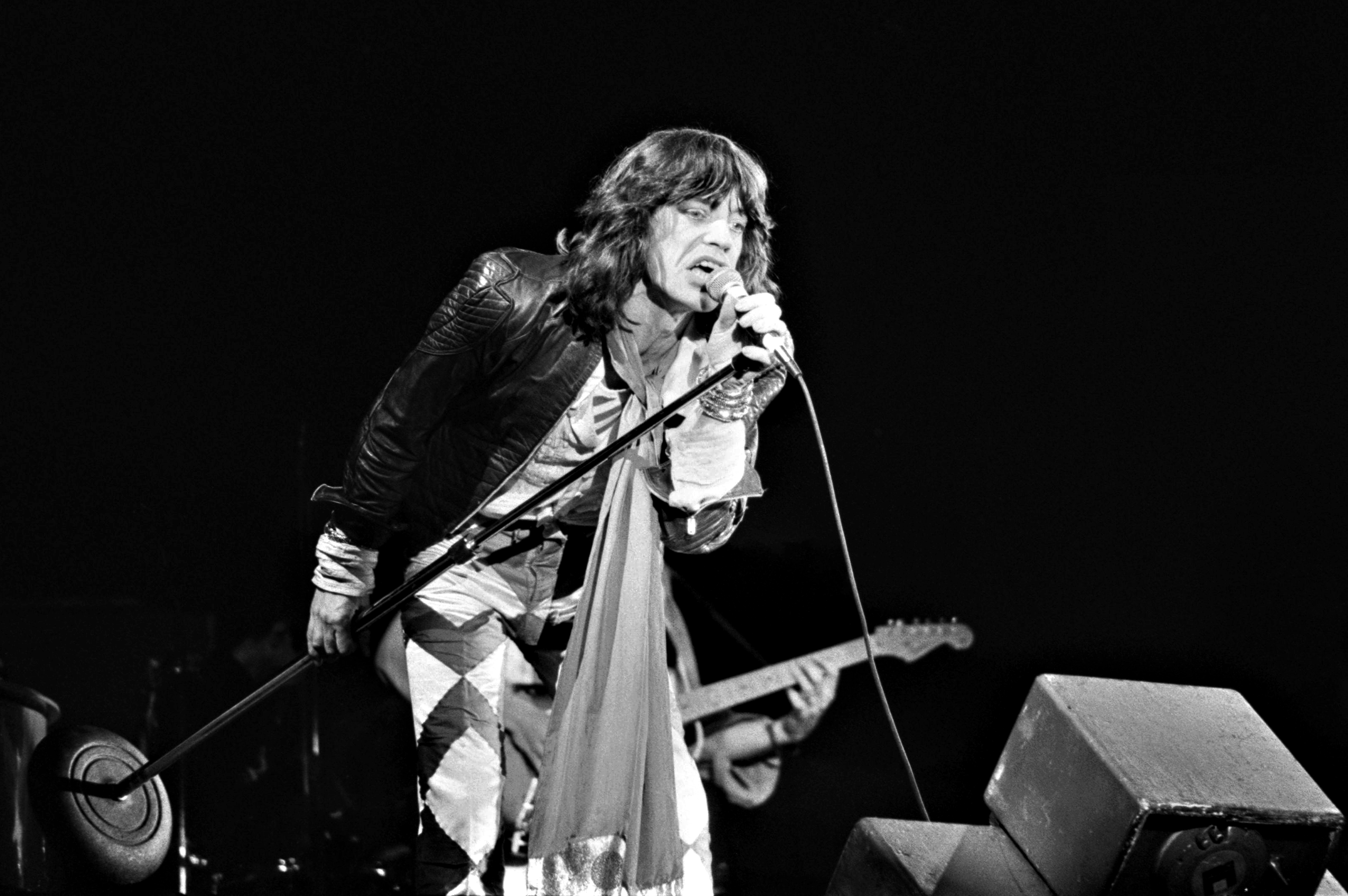 Mick Jagger during a Rolling Stones concert in Zuiderpark in The Hague on May 29, 1976. This is a cropped and retouched (adjustments of colour, sharpened, removed some spots) version of the original image from the Nationaal Archief.